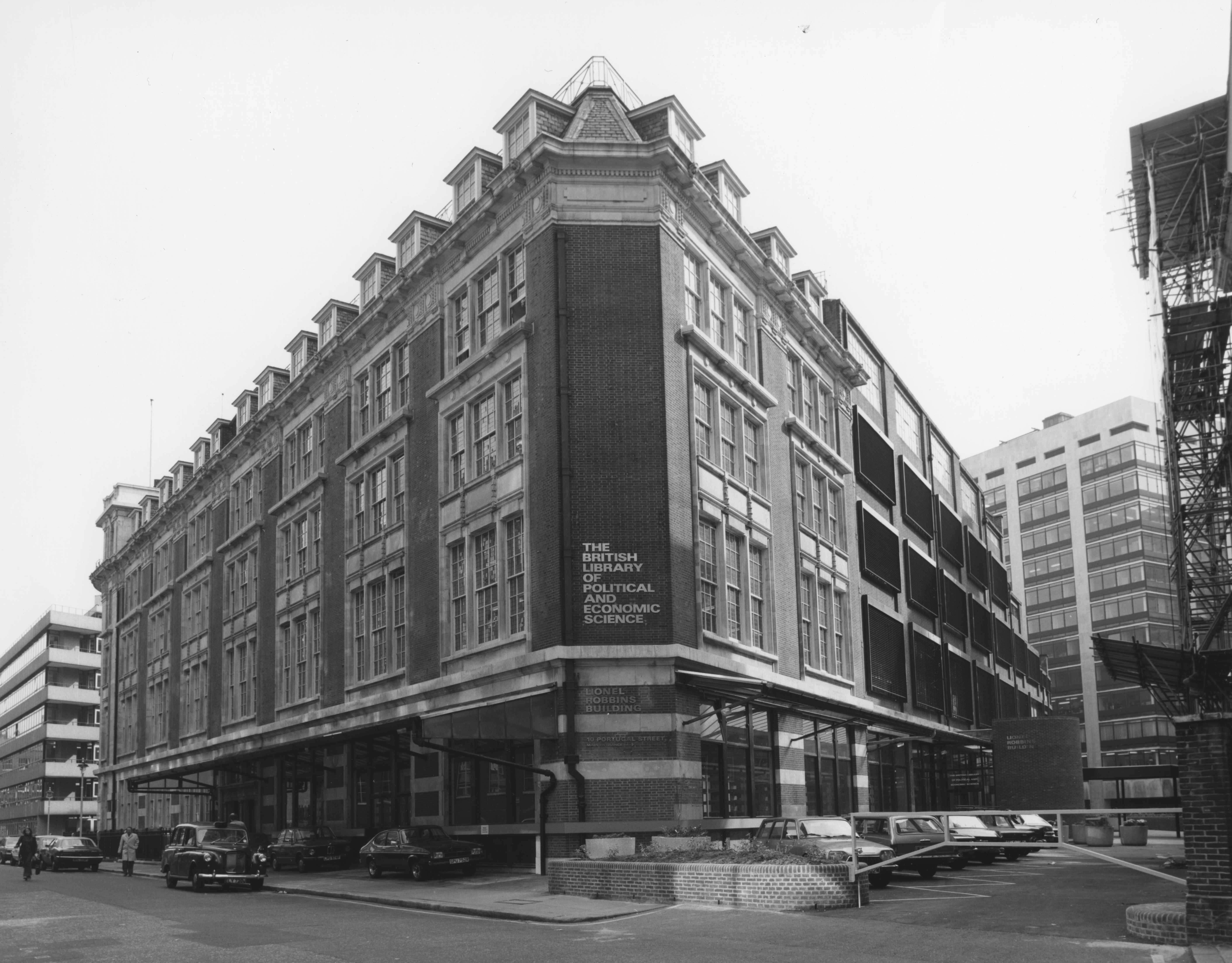 IMAGELIBRARY/41 Persistent URL